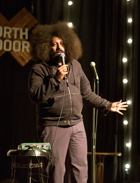 Reggie Watts at The Super Serious Show.